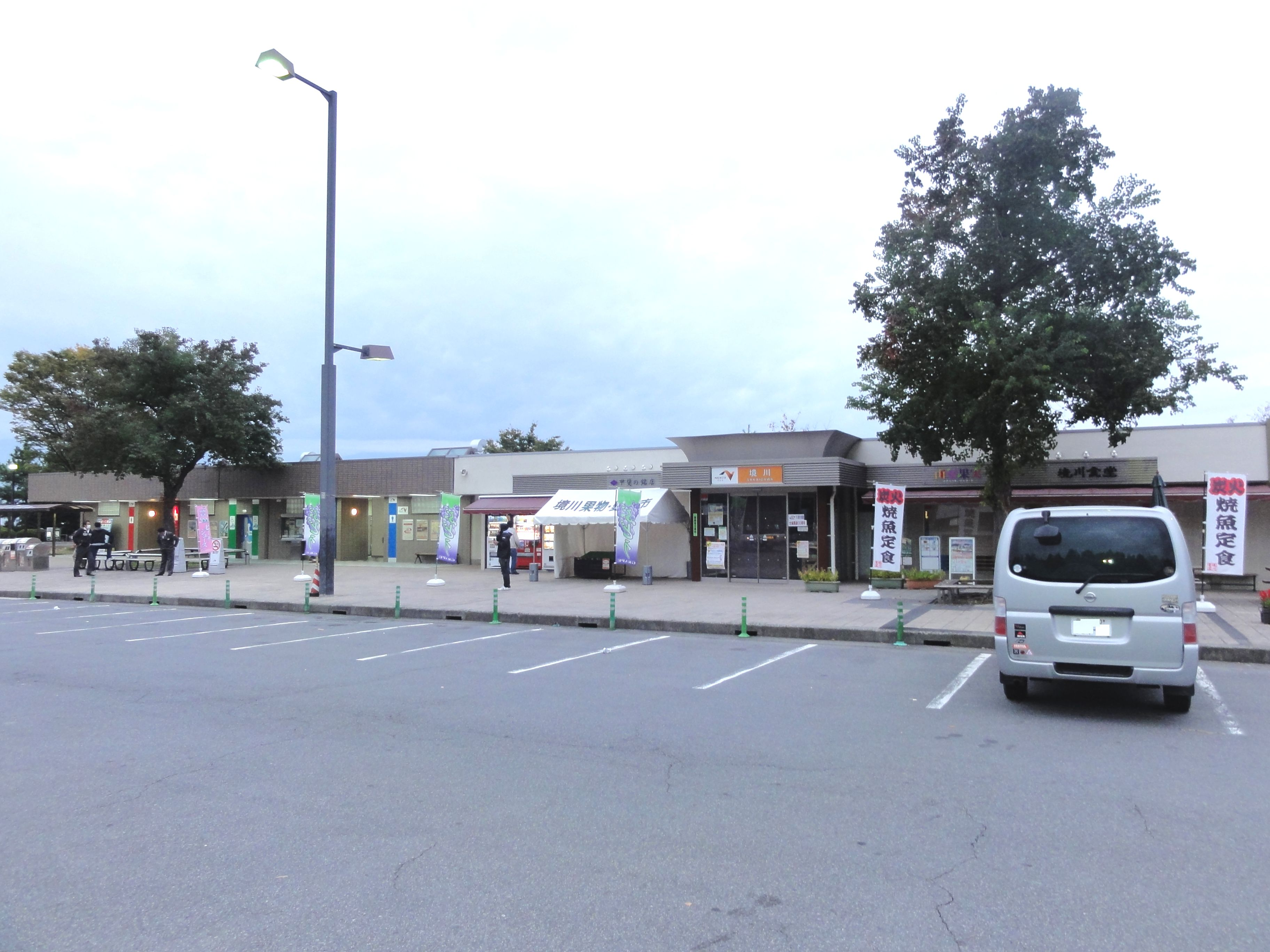 Sakaigawa Parking Area on the Chuo Expressway inbound line (for Tokyo)